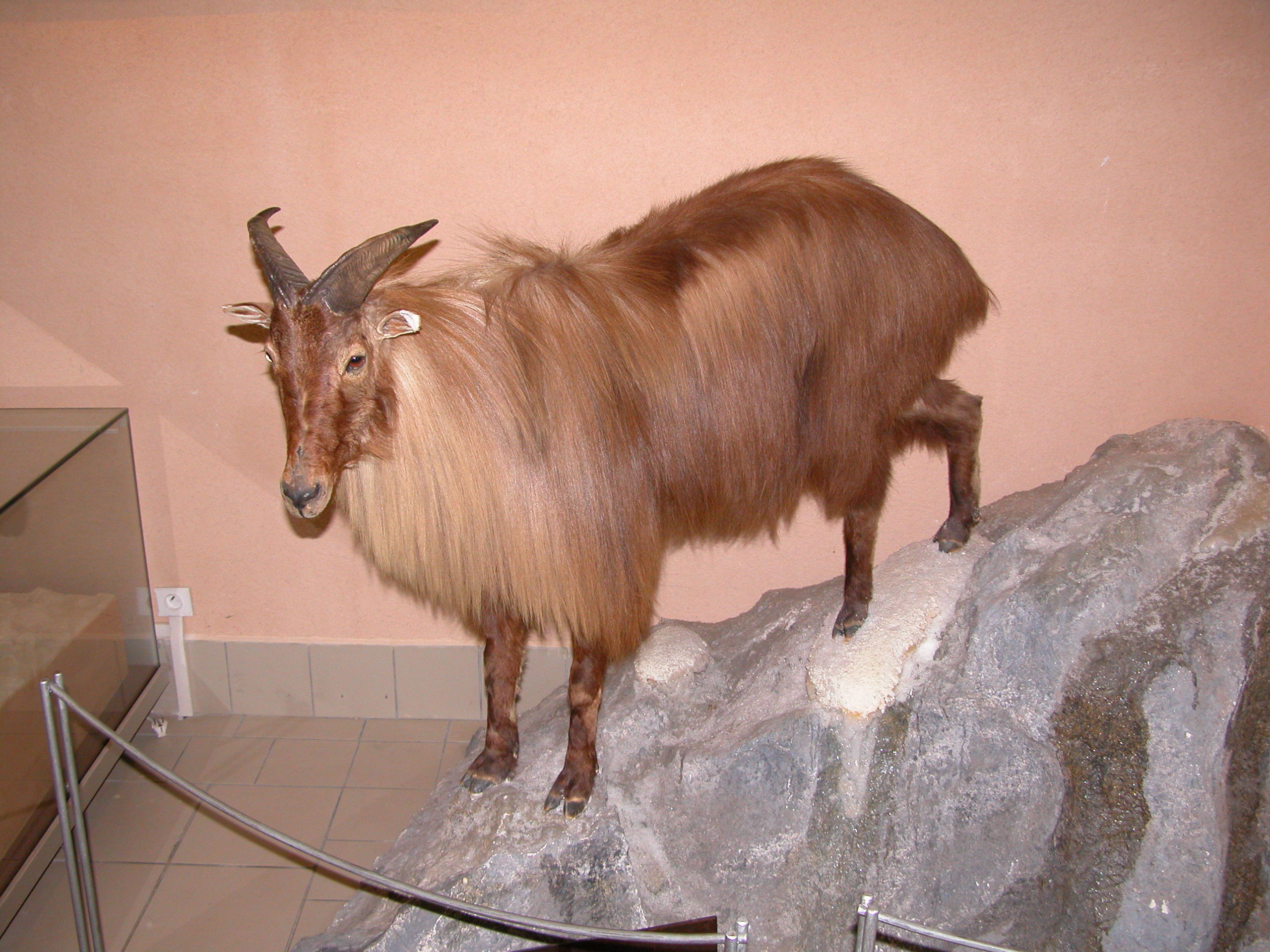 Musée de Préhistoire de Tautavel en France.